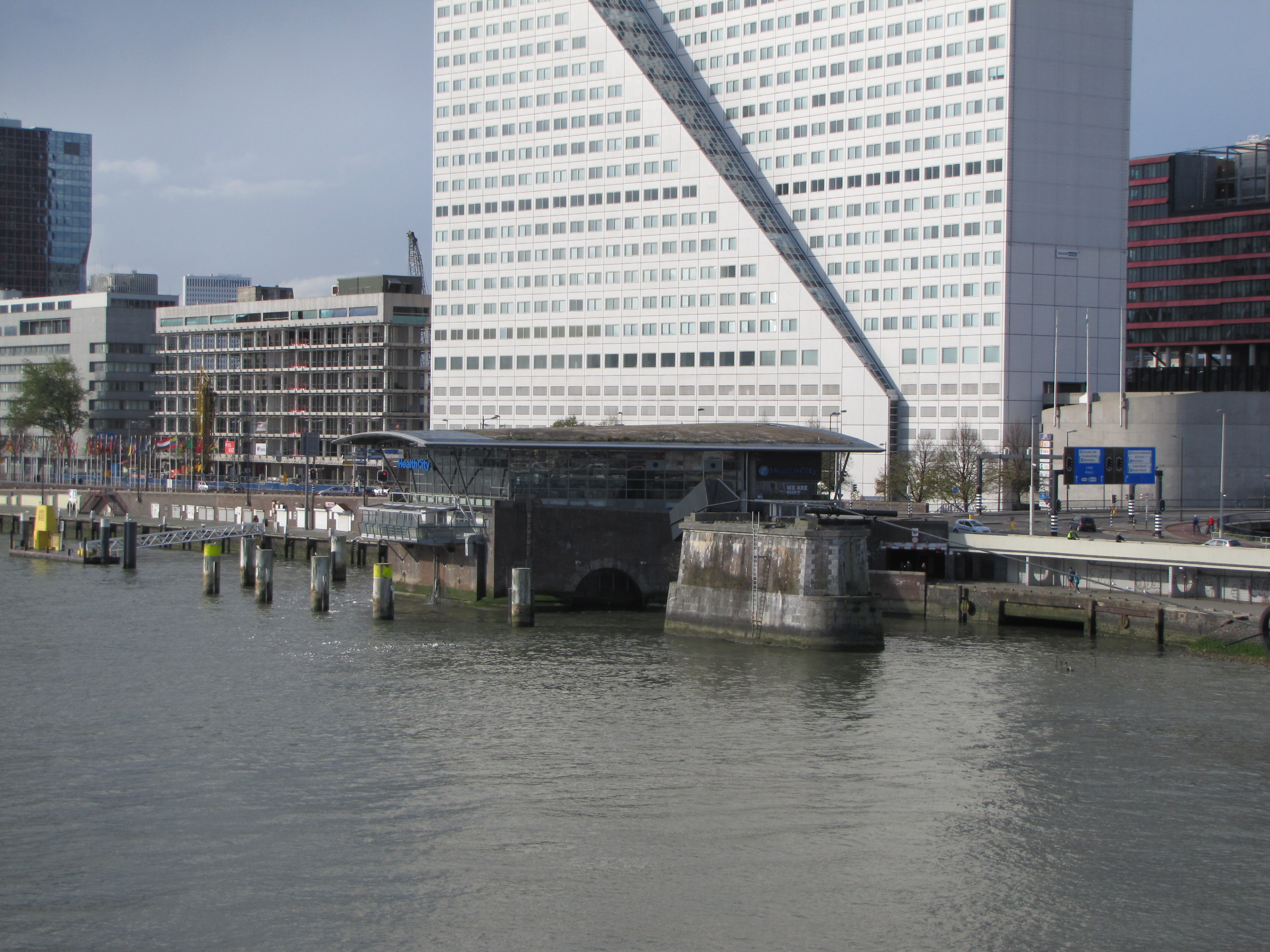 Pictures of Rotterdam on the 5th november 2017.